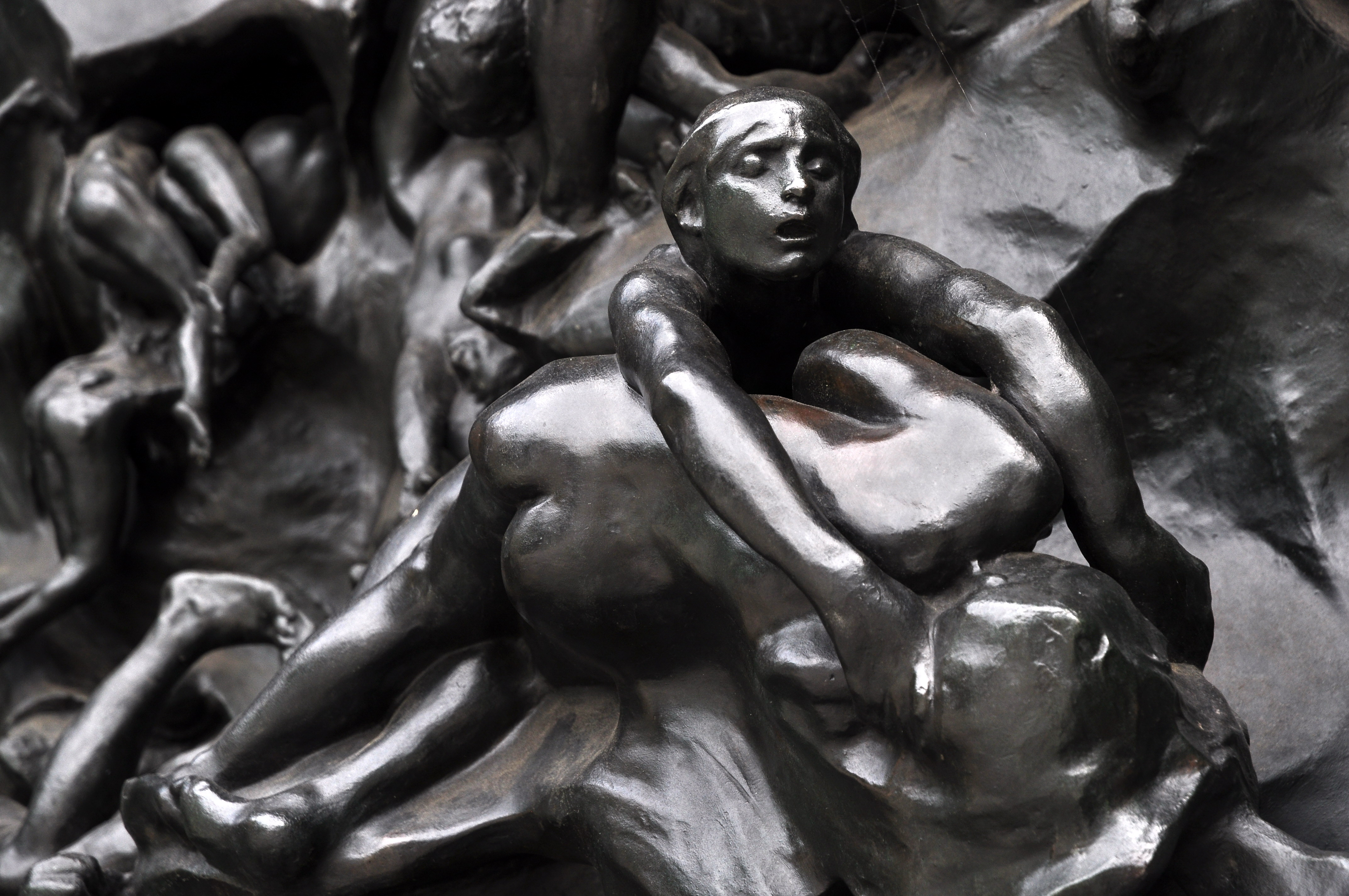 La Porte de l’Enfer (The Gates of Hell) by Auguste Rodin situated at the Kunsthaus in Zürich (Switzerland)